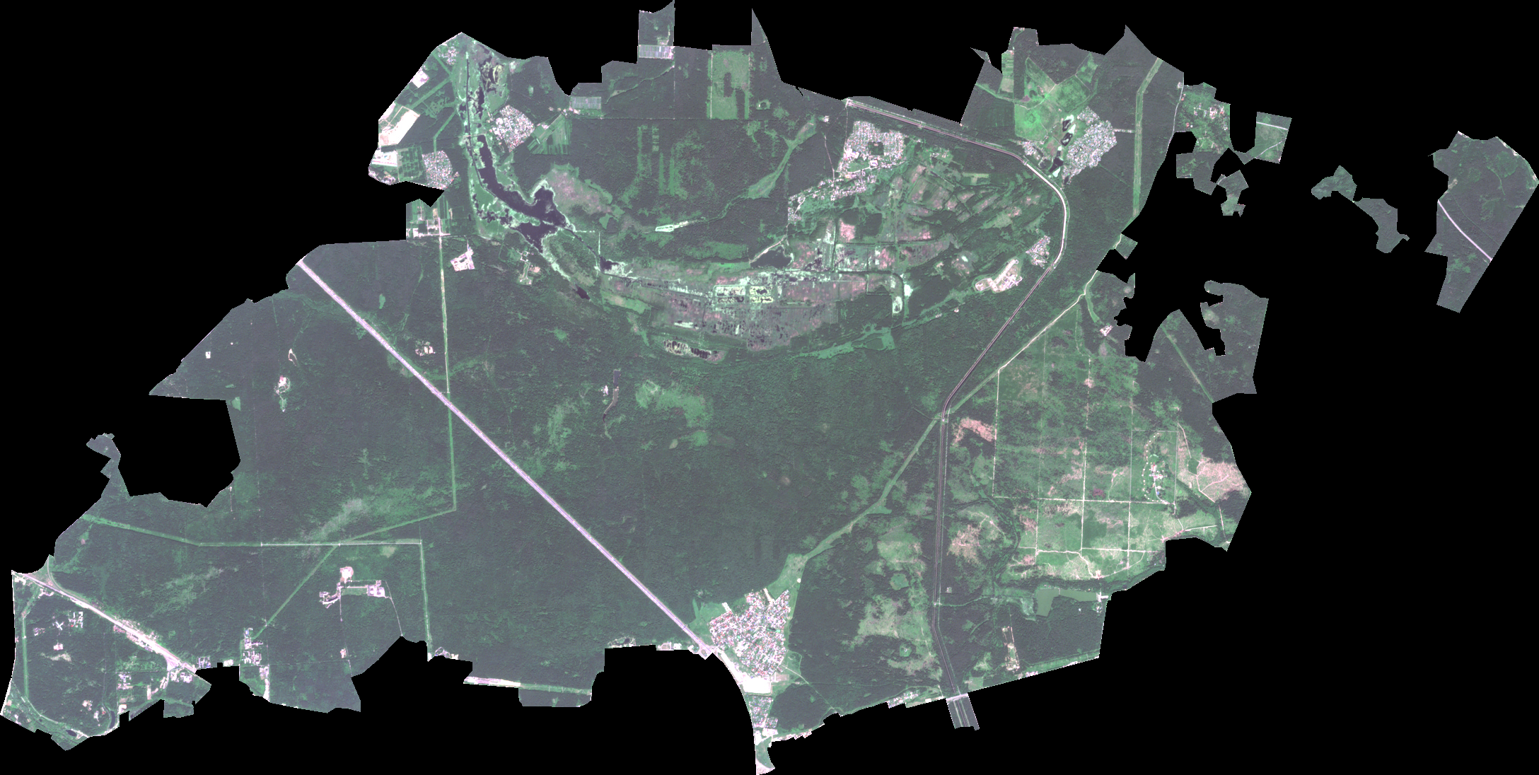 Losinyi Ostrov National Park, Sentinel-2 satellite image, spatial resolution 10m